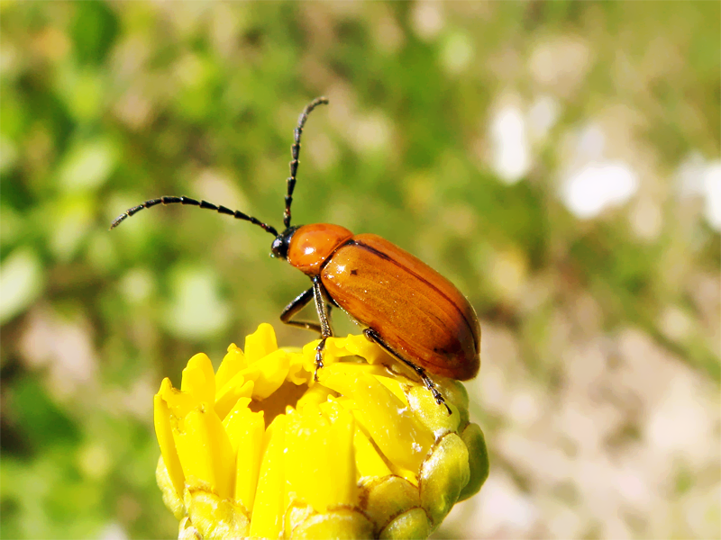 Exosoma lusitanica in Ansião, Leiria, Portugal